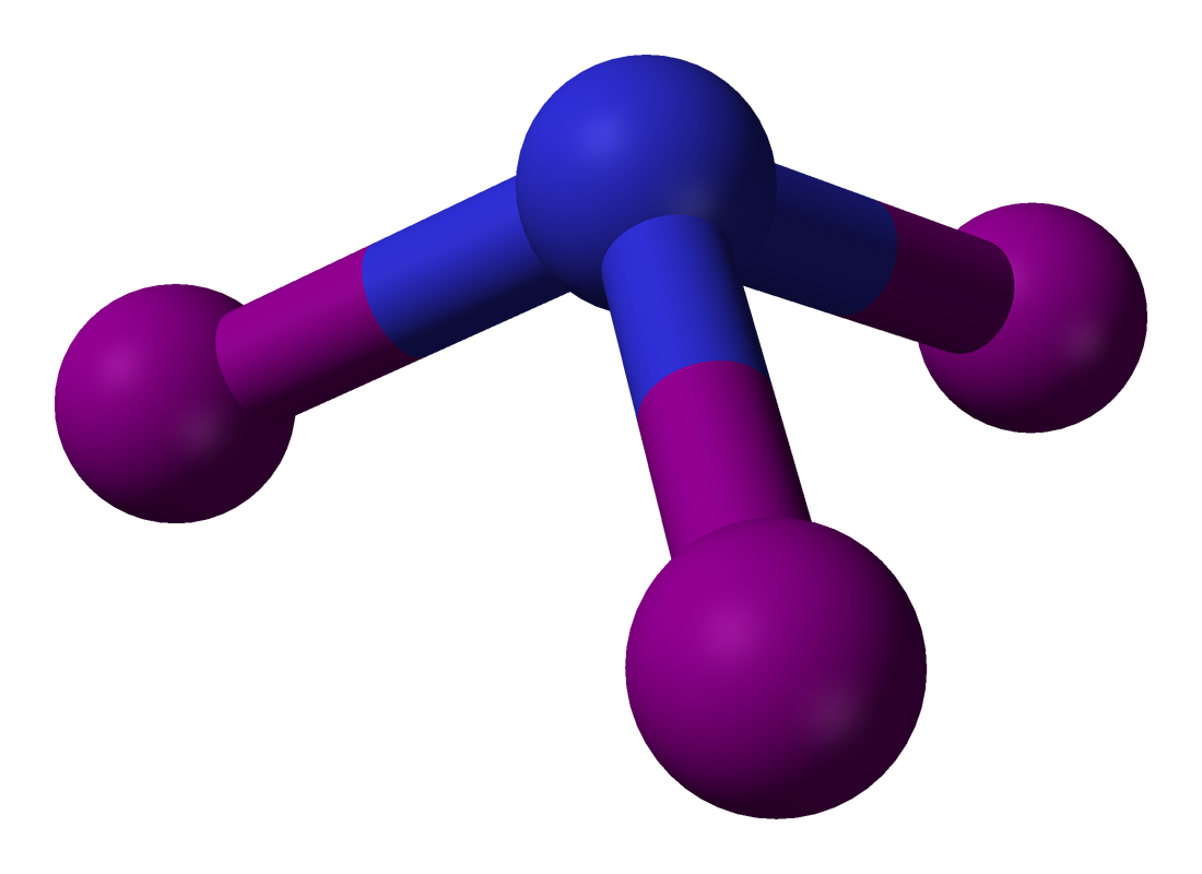 Ball-and-stick model of the nitrogen triiodide molecule, NI3, based on this model